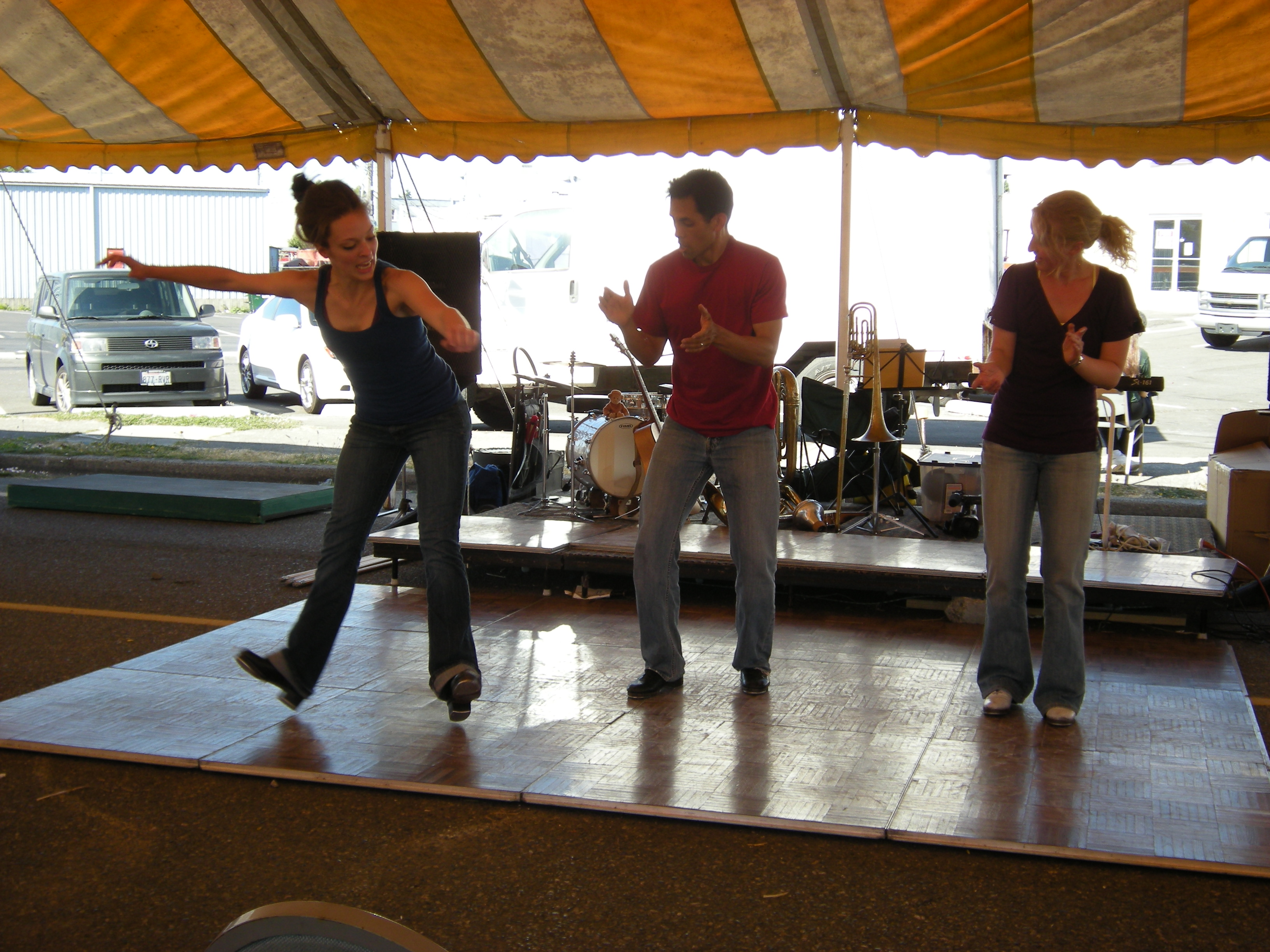 Mark Mendonca's UPBEAT! (tap dance and percussion performers) at 2008 White Center Jubilee Days, White Center, Washington. Mendonca [That is probably properly "Mendonça", but he apparently has dropped the cedilla] at center; I believe the woman at left is named Melissa Farrar; I don't know the other woman's name, though she may be Jesse Sawyers, who is definitely a Seattle-based tap dancer.